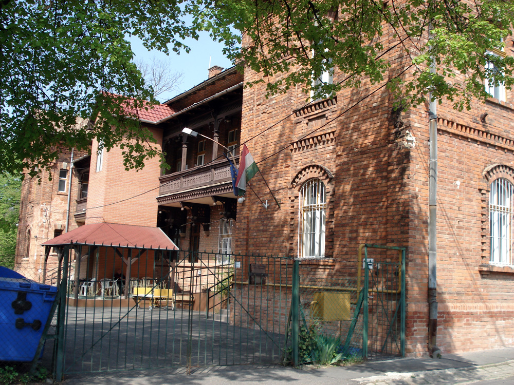 Old building of Ferenc Erkel Music School, Miskolc, Diósgyőr-Vasgyár, Hungary